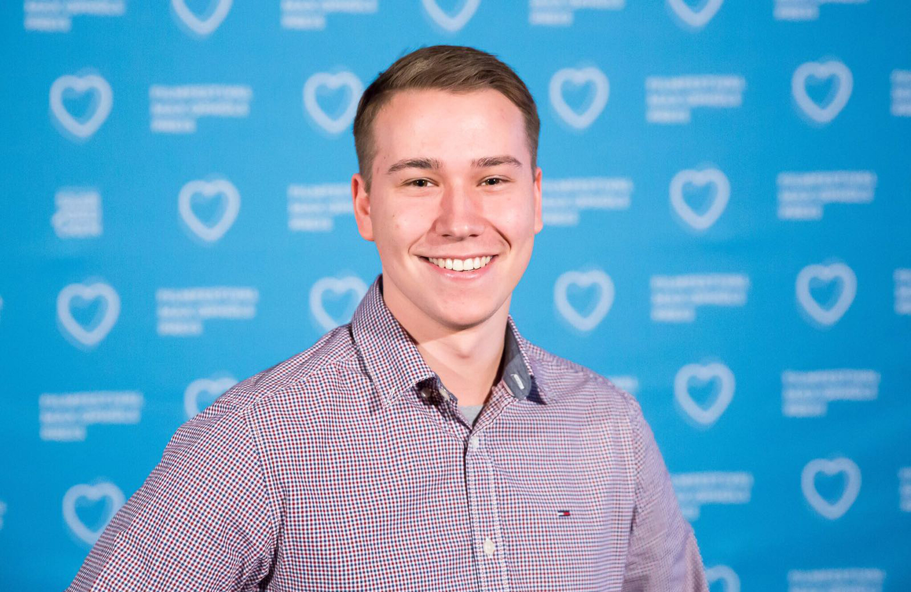 Schauspieler Dennis Kamitz MOP17